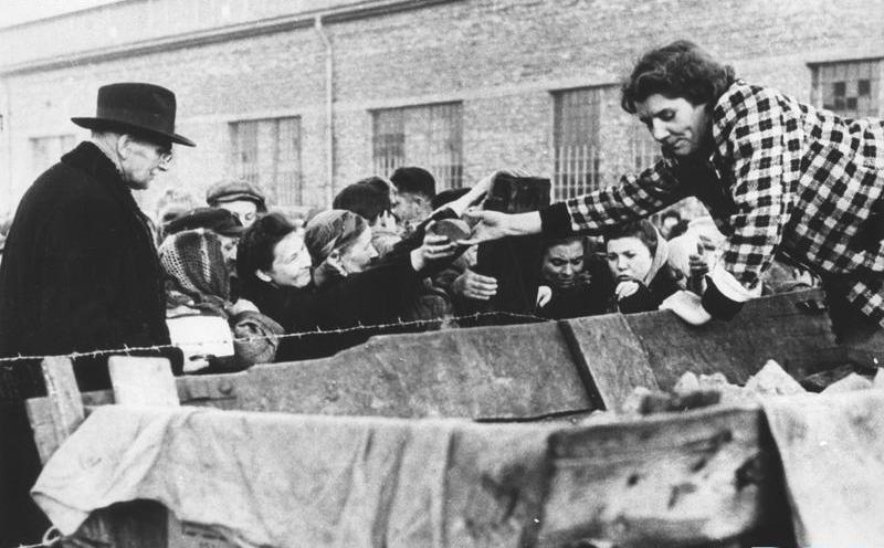 Antoni Szlagowski, Bishop of Warsaw, with Polish civilians expelled from Warsaw during the Warsaw Uprising. German Transit Camp in Pruszków (Dulag 121).